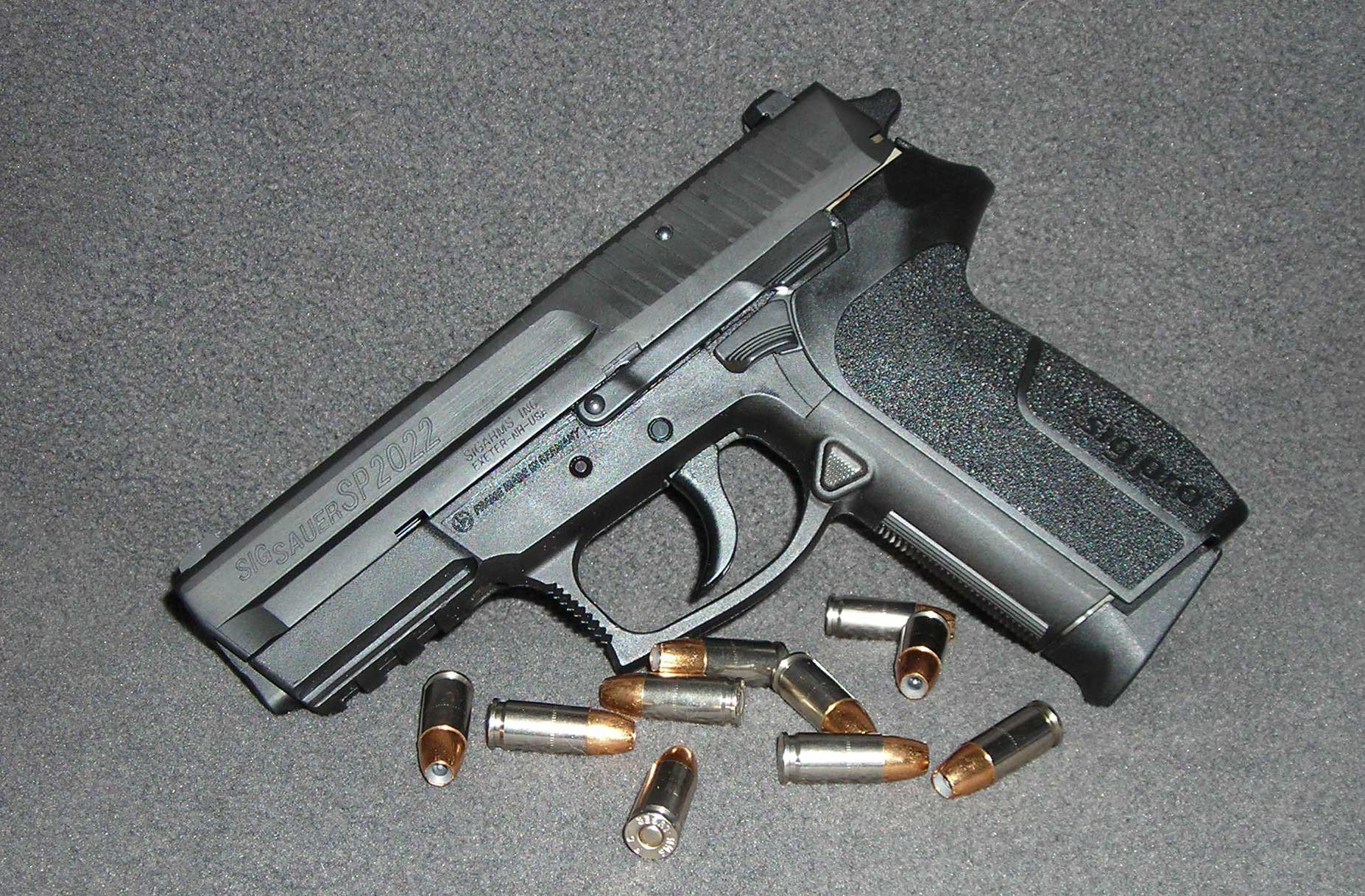 My SIGPro SP2022 with some 9mm ammo